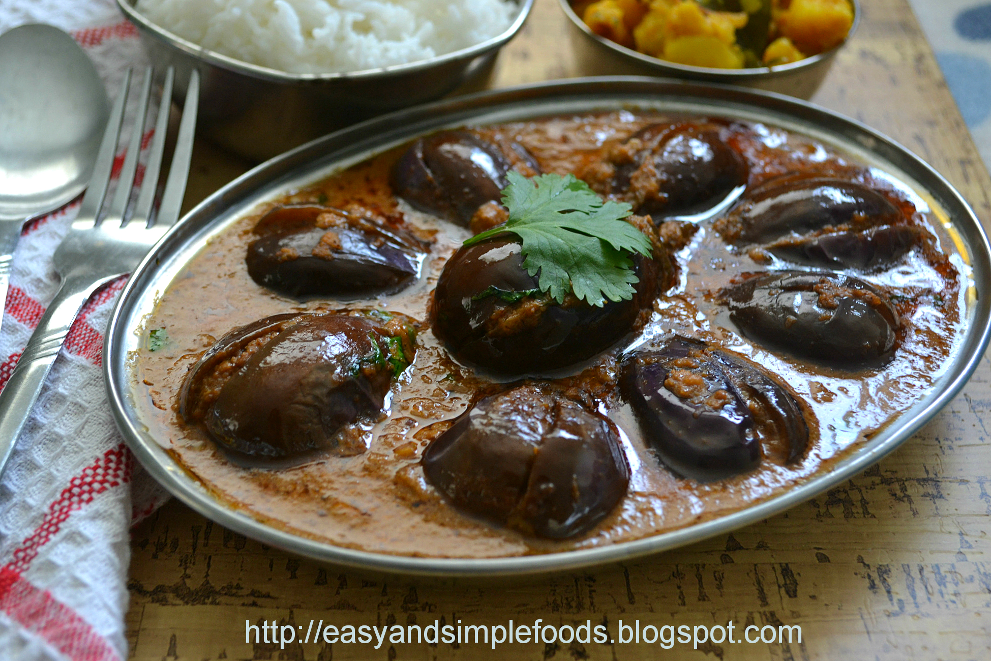 Stuffed Eggplant Curry also known as "Ennai Kathirikai" in Tamil.